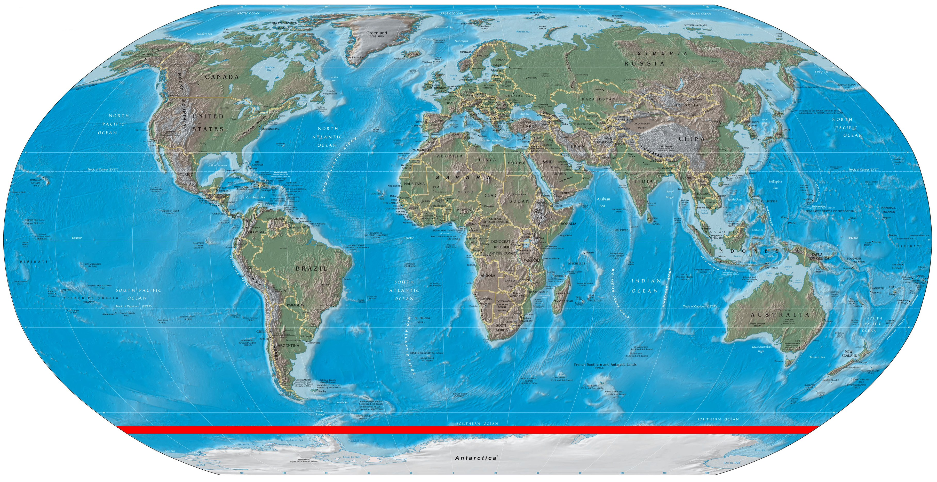 Based on public domain CIA World Fact book image with the Antarctic Circle bolded in red